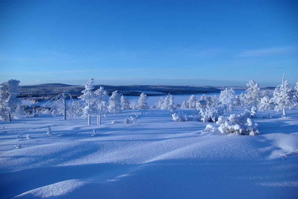 A view to the lake Iso-Vietonen from the mountainside of Liinankivaara in the Ylitornio municipality.